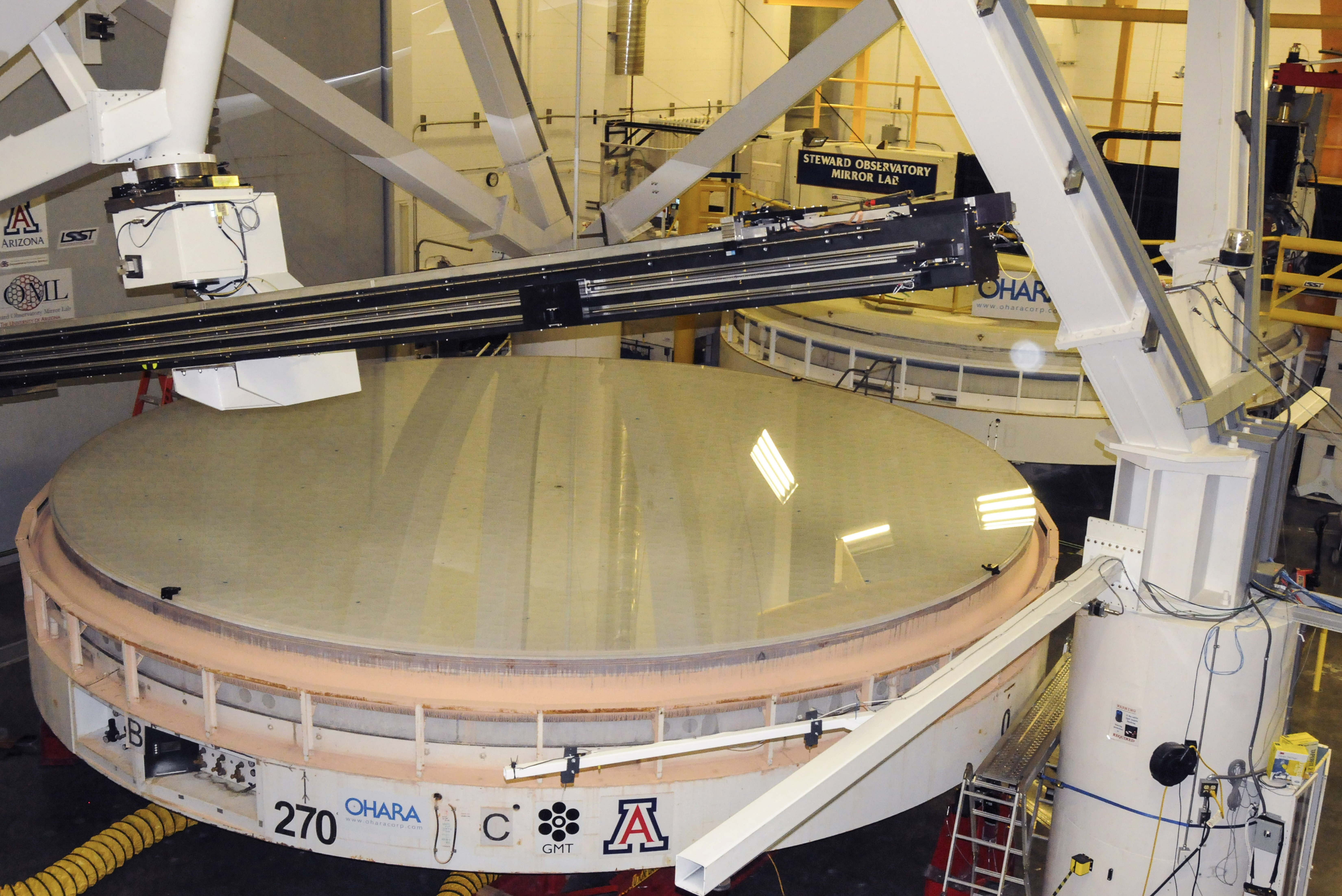 8.4 meter mirror at Steward Mirror Lab on University of Arizona campus in Tucson, Arizona